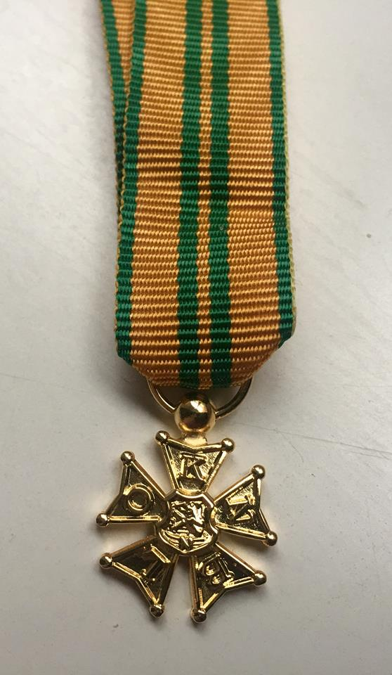 Miniature Cross for the Four Day Marches. Although it is awarded by a non-governmental organisation, the Cross has received Royal approval and can be worn on the uniforms of the Armed forces of the Netherlands and other Dutch uniformed services, including the police, fire brigade and customs services. It is therefore an official decoration of the Kingdom of the Netherlands.